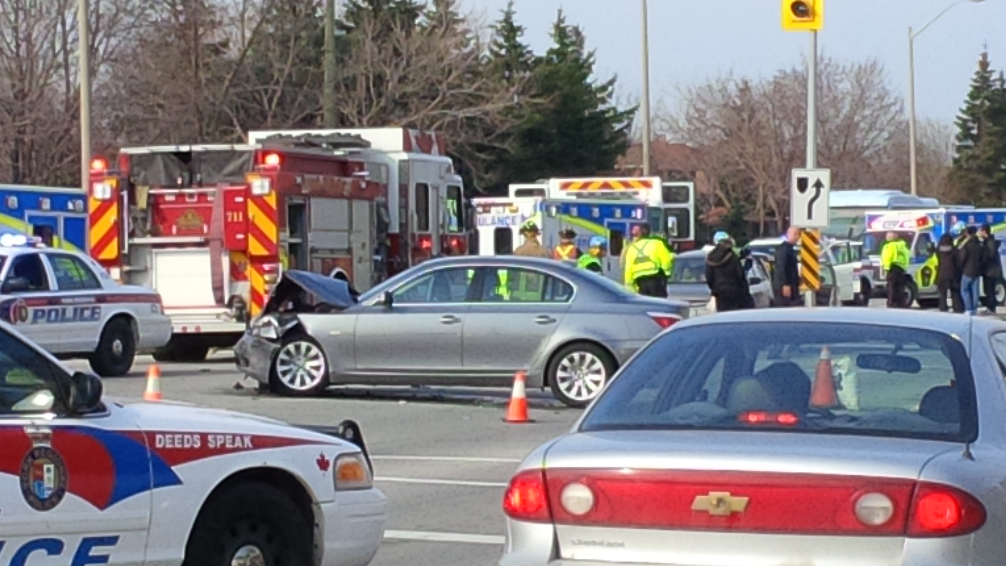 Emergency vehicles on the scene of a severe multi car accident